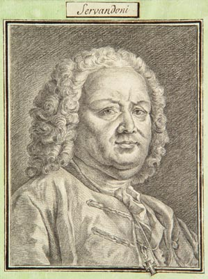 Portrait of Giovanni Niccolo Servandoni (1695-1766), French architect and painter